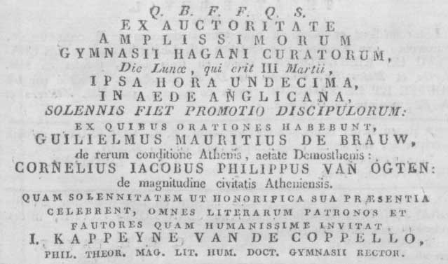 newspaper clipping promotion willem de Brauw